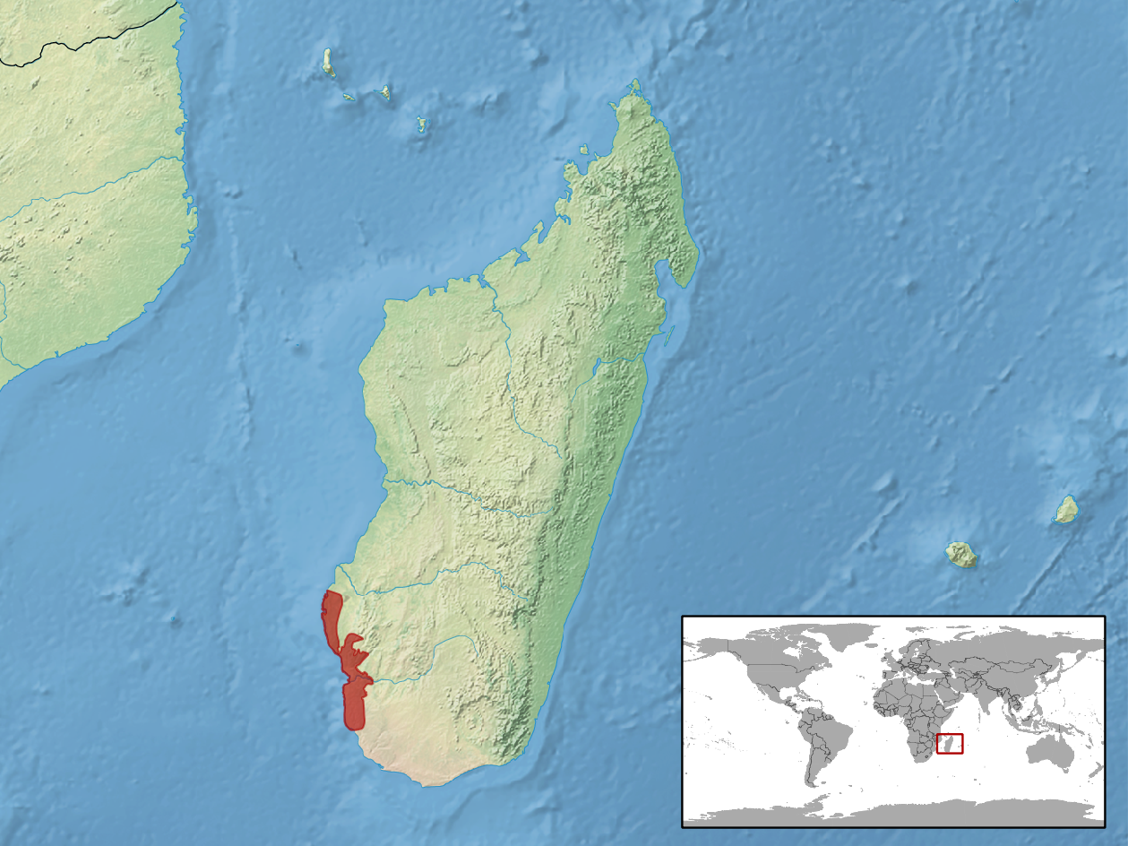 geographic distribution of Voeltzkowia fierinensis